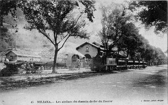 Miliana Mine Tramway